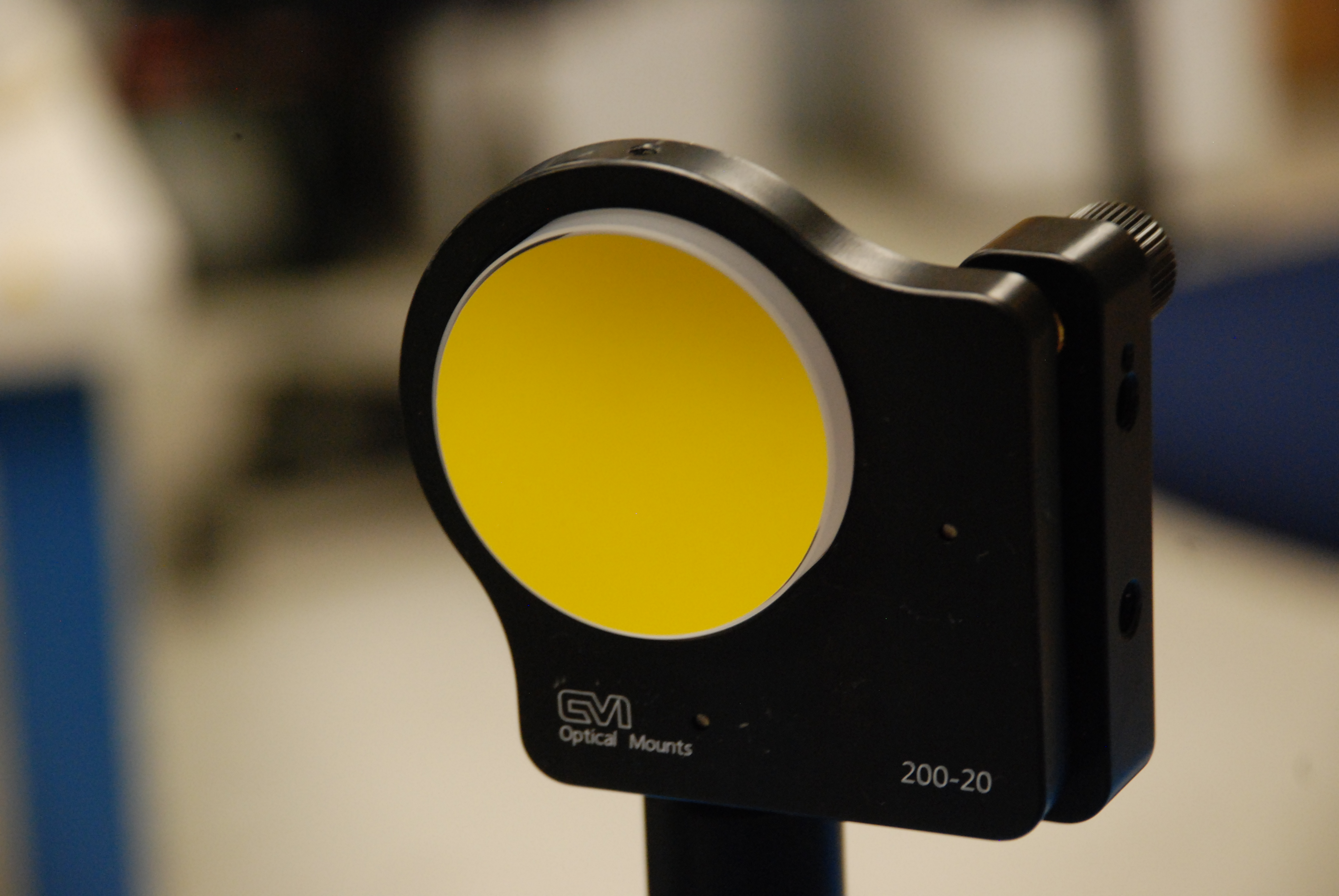 Gold mirror used for cold atoms experiments